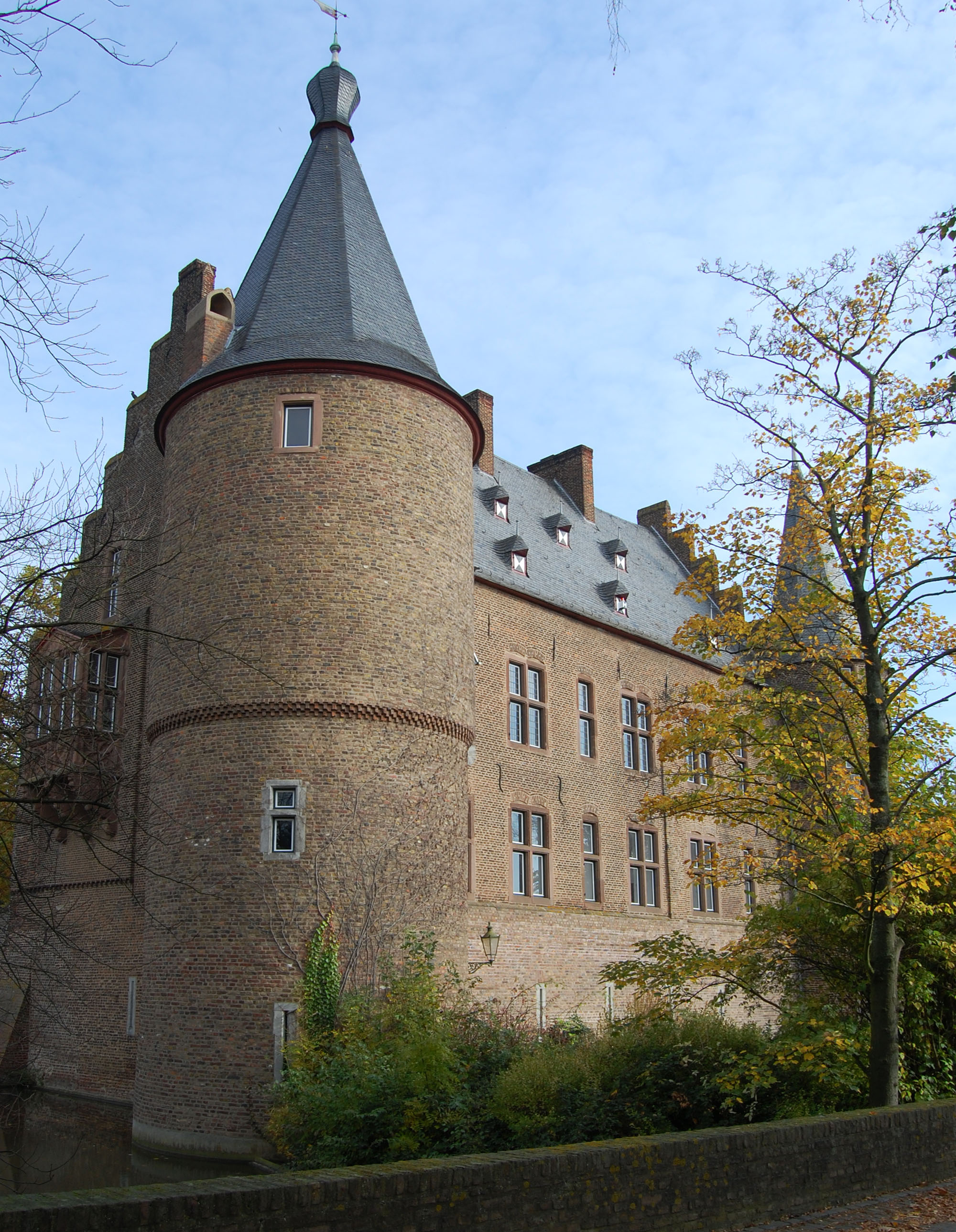 Picture from the village Konradsheim, Erftstadt, Germany